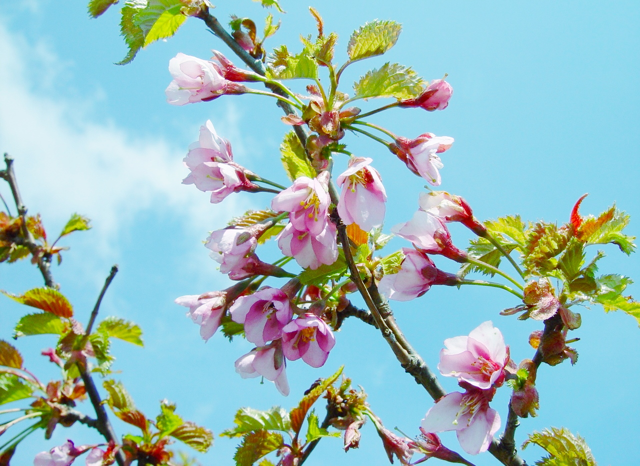 Prunus nipponica, in Mount Sannomine, Ryōhaku Mountains, Japan.